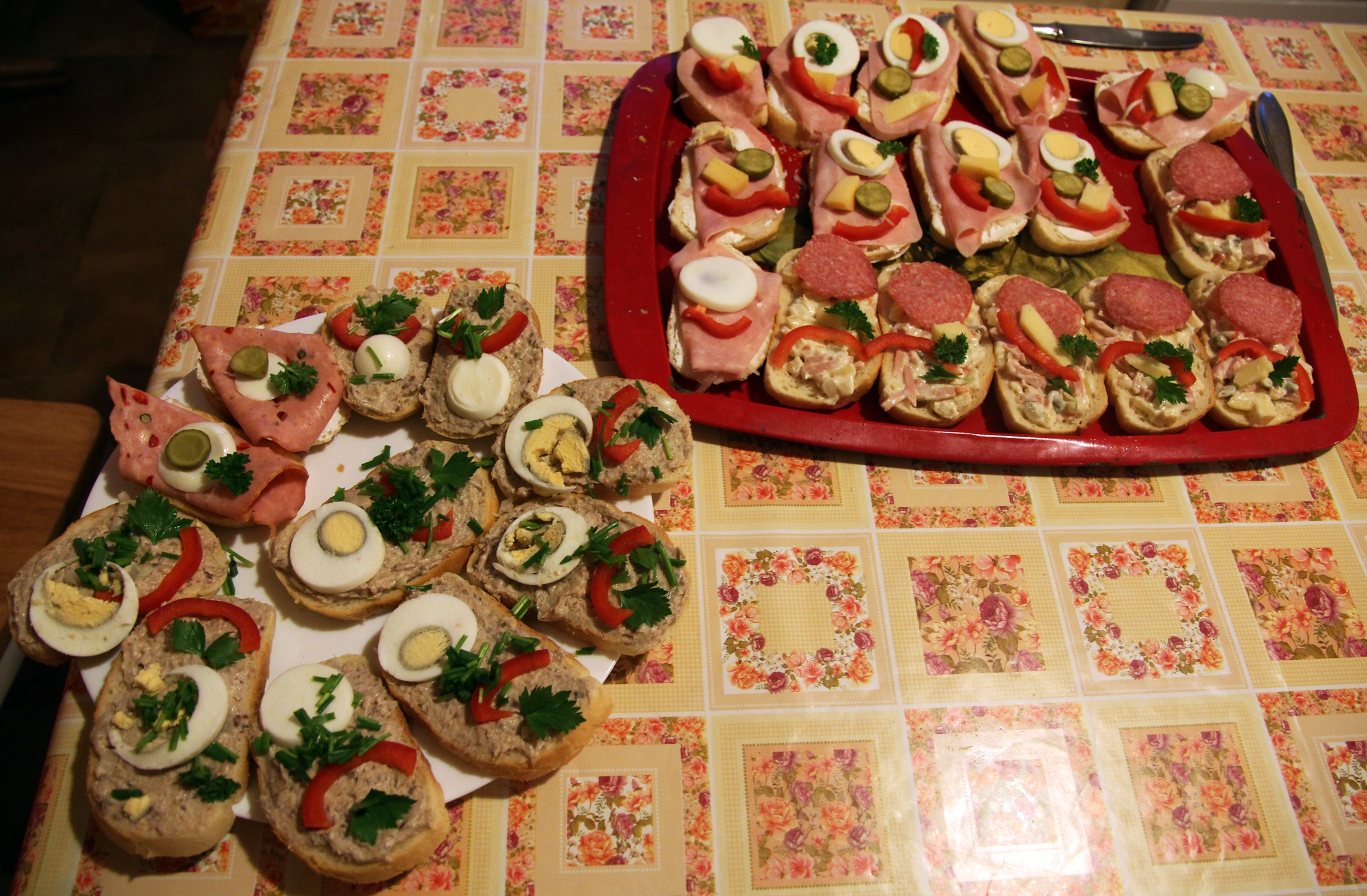 Open sandwiches, Czech republic